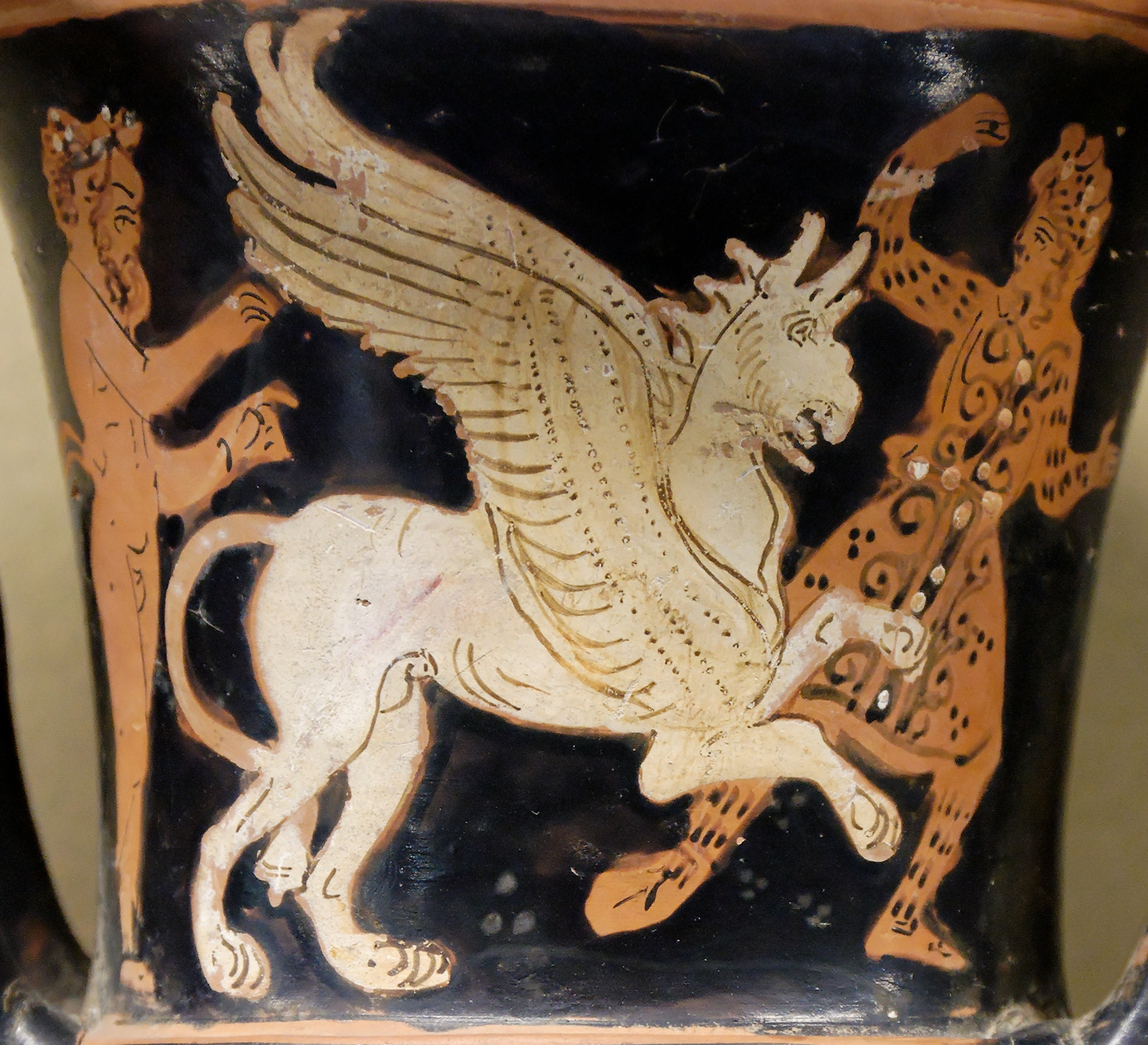 A satyr, a griffin and an Arimaspus. Detail from an Attic red-figure calyx-krater, ca. 375–350 BC. From Eretria.